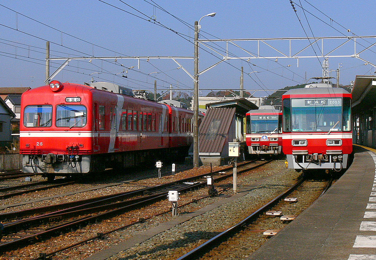 Enshu Railway Line.